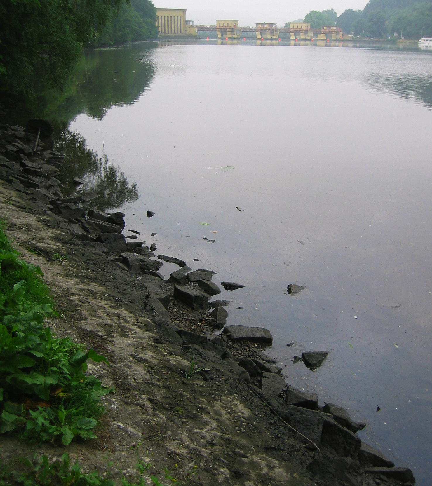 Hengsteysee (Ruhr), Hagen, North Rhine-Westphalia, Germany.